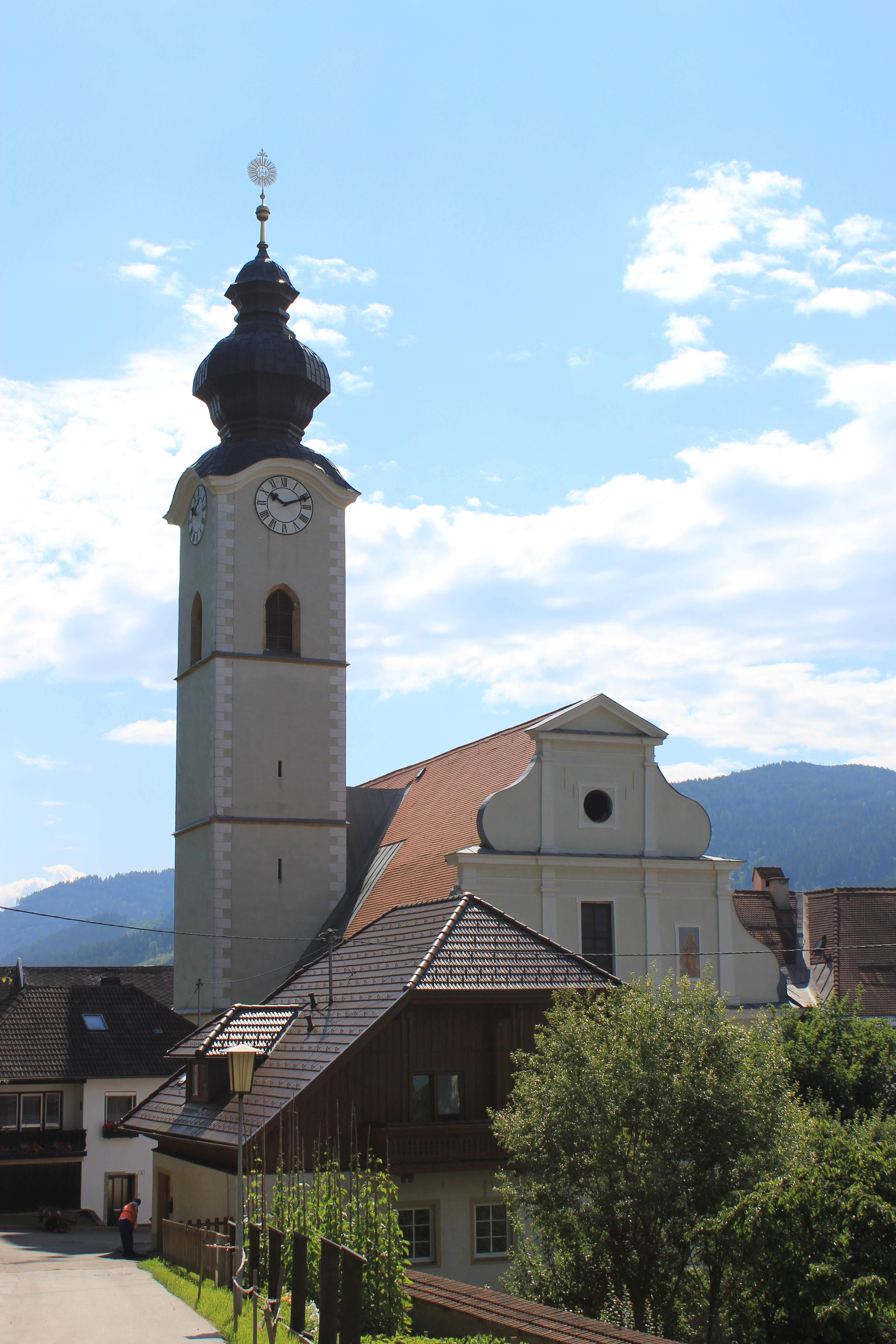 Parish church of Straßburg